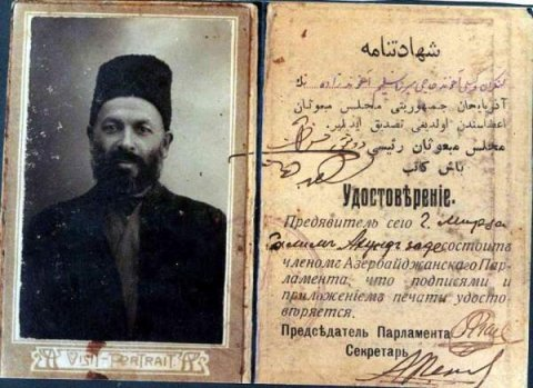 Identification card of a member of the Azerbaijani Parliament, Mirza Salim Akhundzade. 1918.